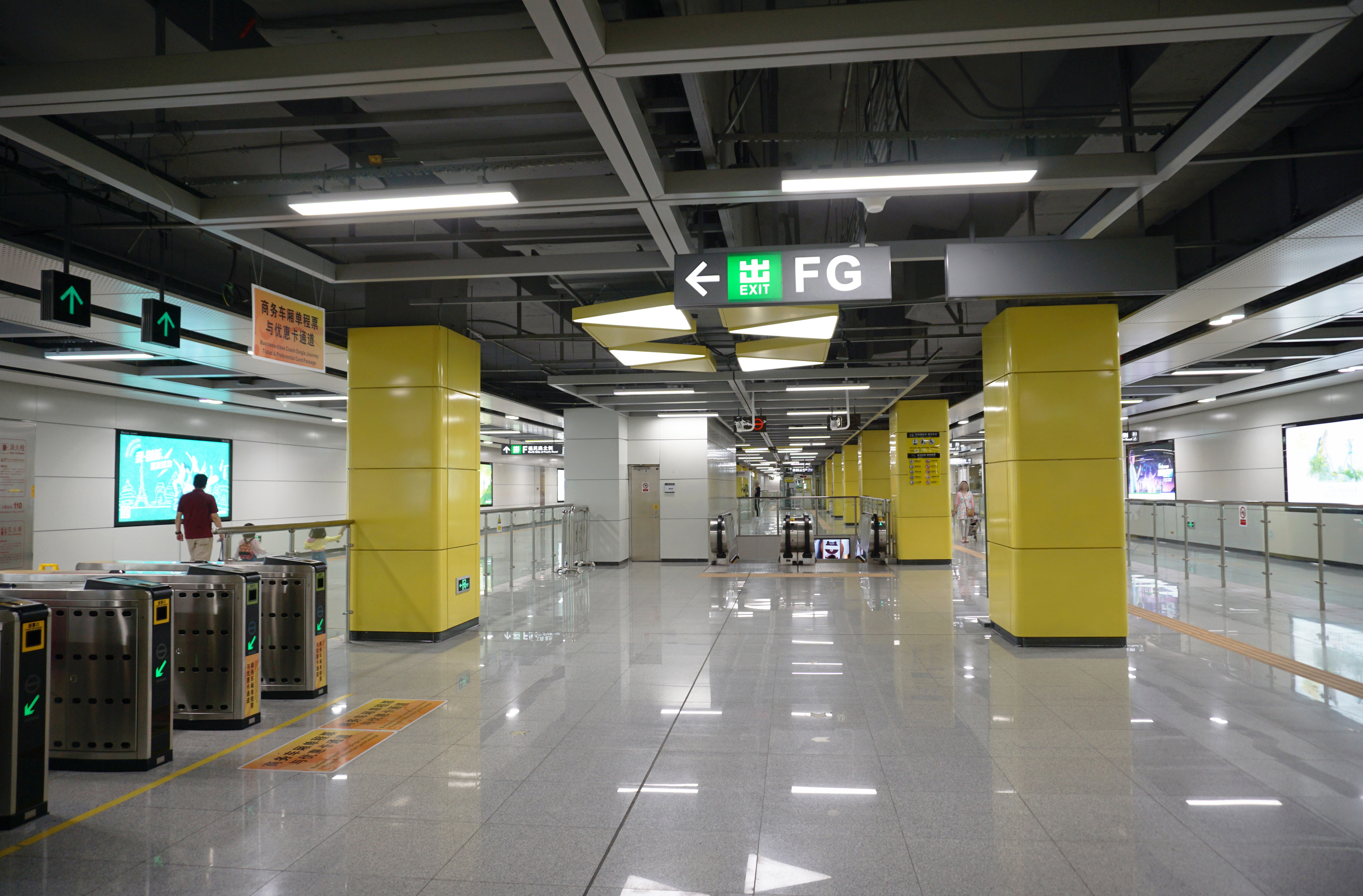 Fumin Station in Huanggang Port, Shenzhen.